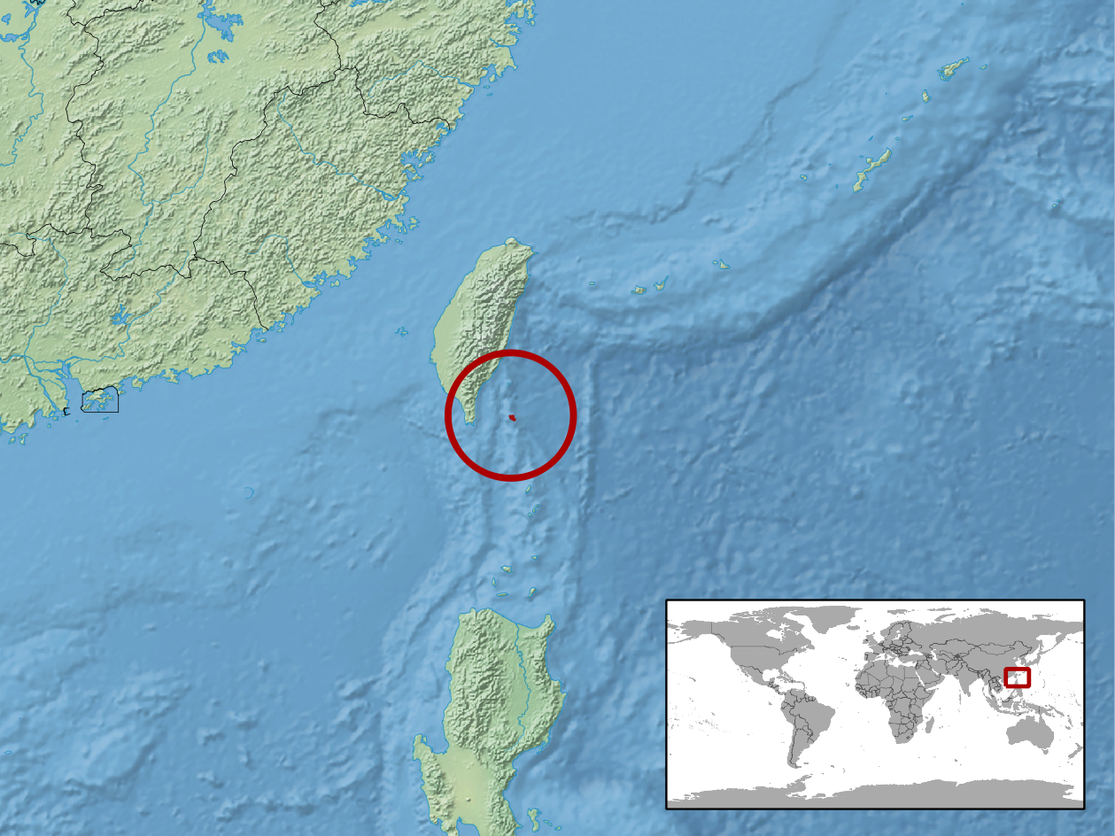 geographic distribution of Gekko kikuchii (Native: Taiwan, Province of China)